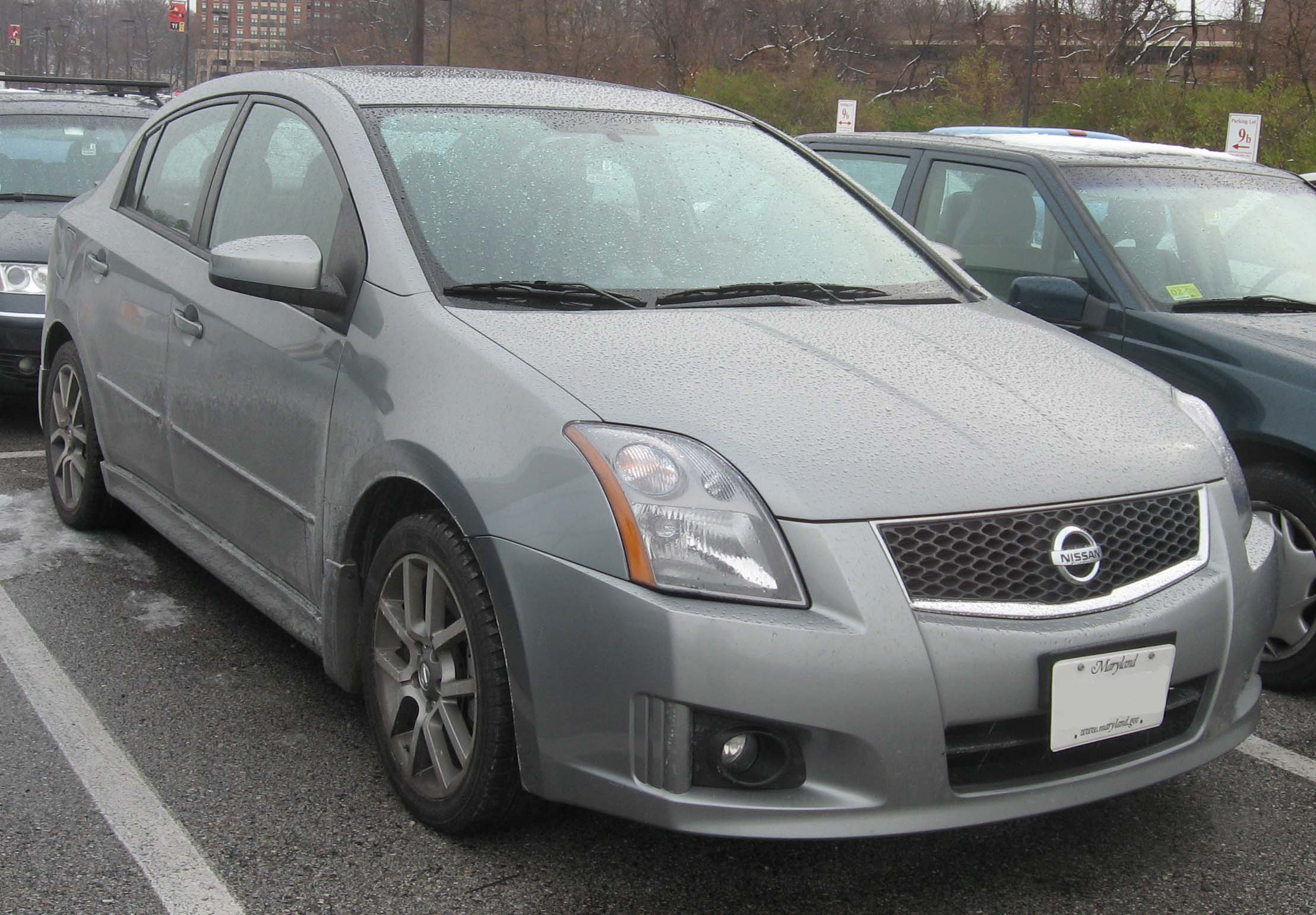 2008 Nissan Sentra photographed in College Park, Maryland, USA.